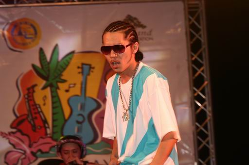 Zeebra is a famous Japanese hip hop artist